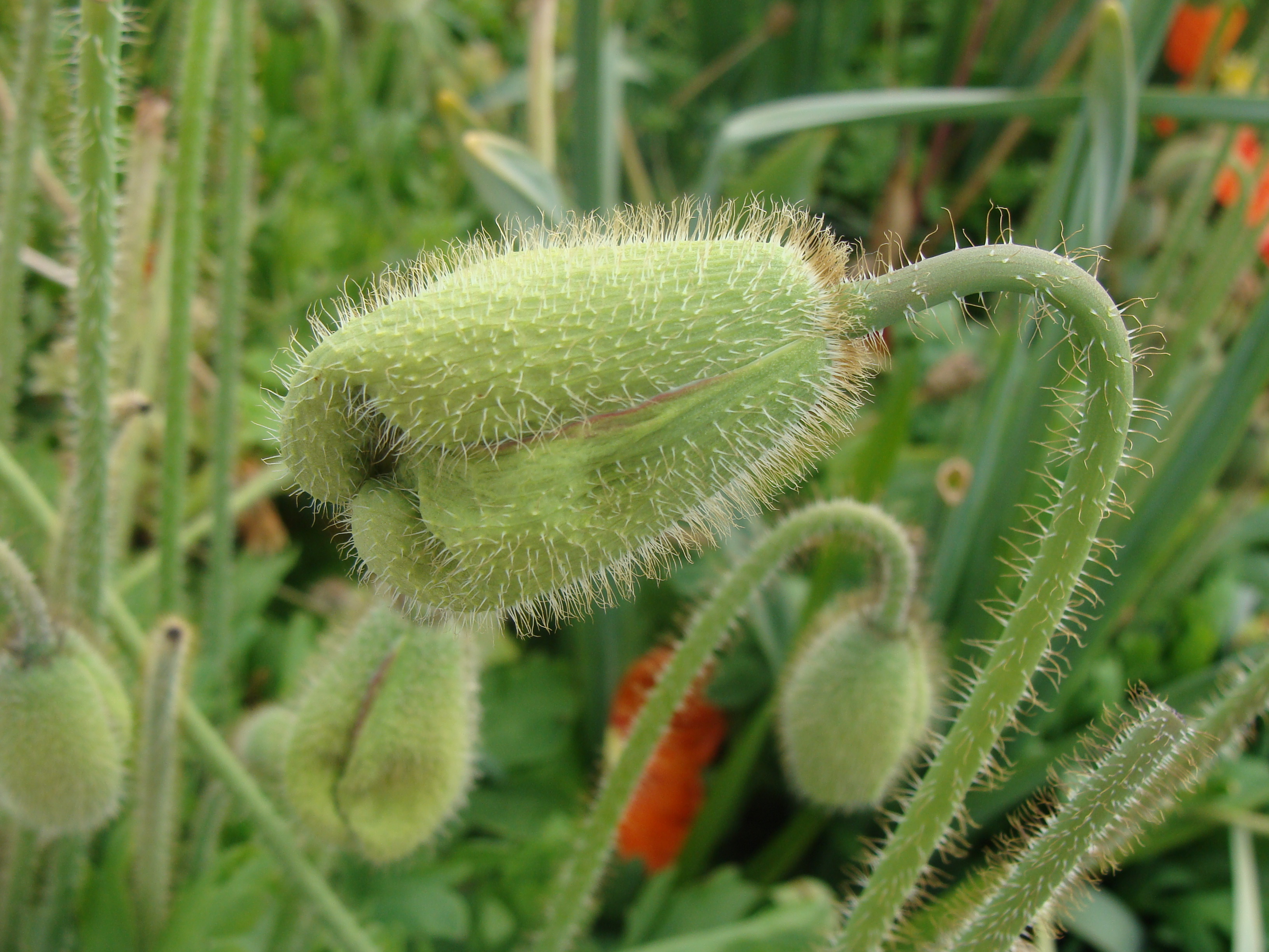 A bud of papaver alpinum.